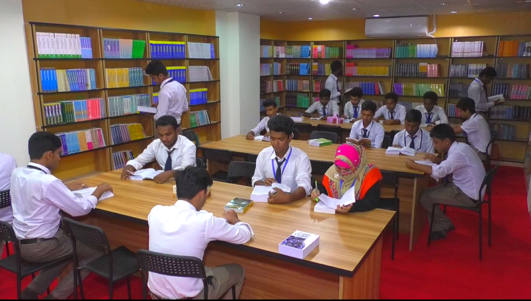 Library of MIST